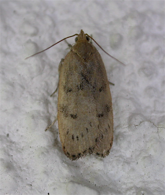 Phaeosaces coarctatella, male, to light, Browns Bay, New Zealand, 1 November 2004